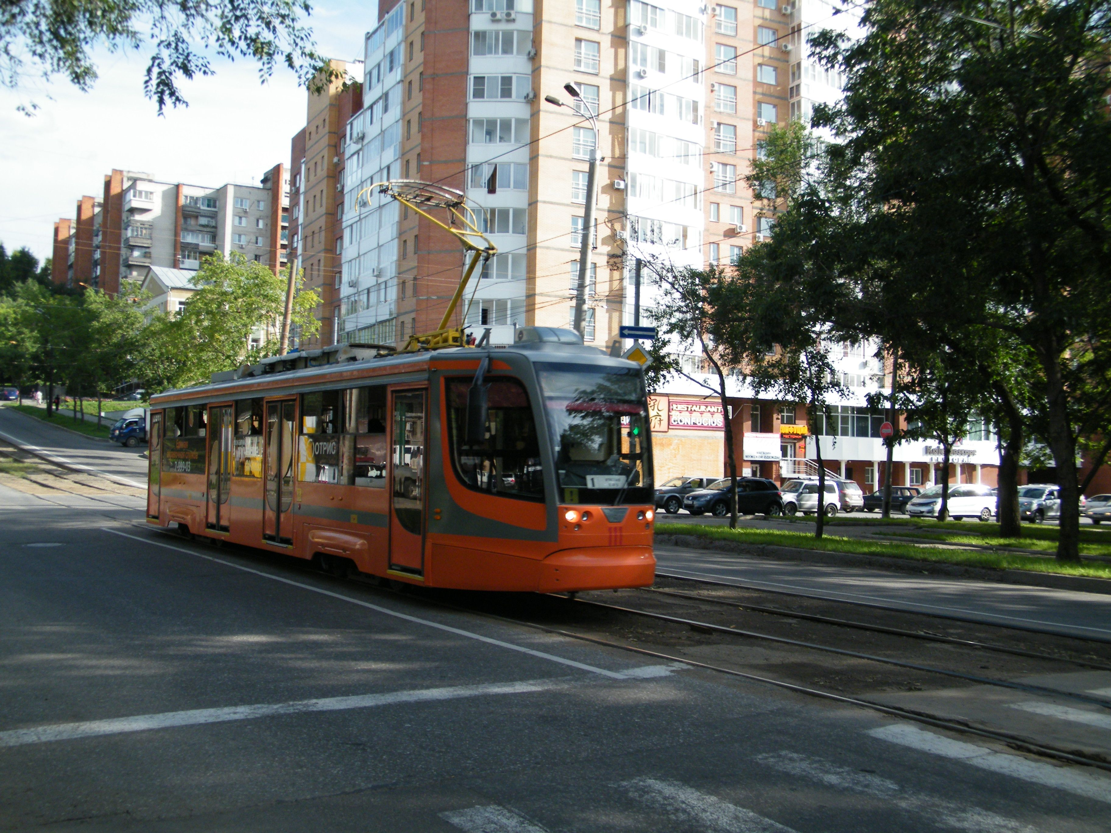 Trams in Khabarovsk